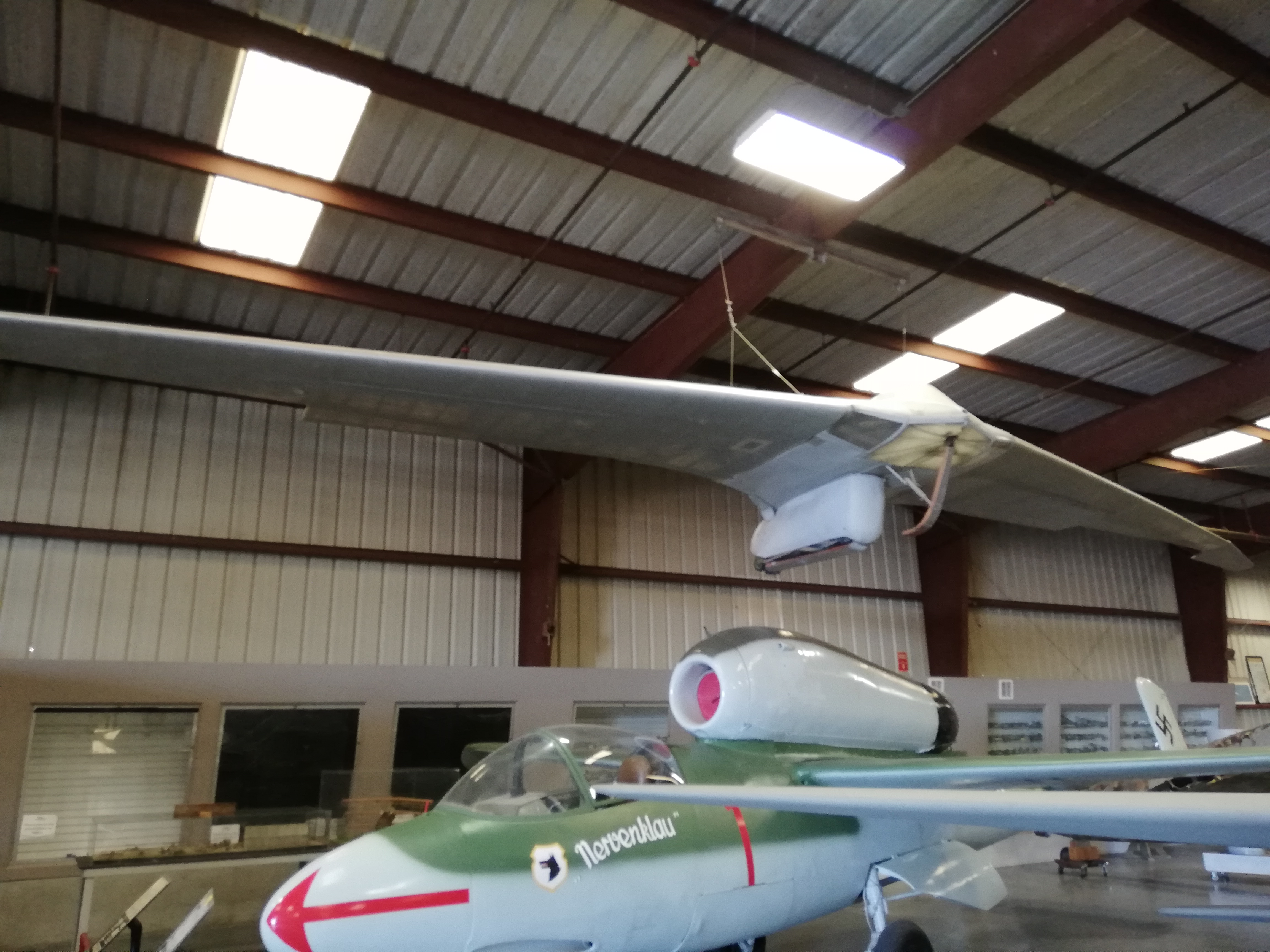 c/n 25 (also reported as HAC.289). Built 1943. Allocated British military serial VP543 for testing. Later given British Gliding Association No BGA647, but shipped to the USA in 1950 and wound up on the civil register. Whether any civilian flying actually took place is unclear.